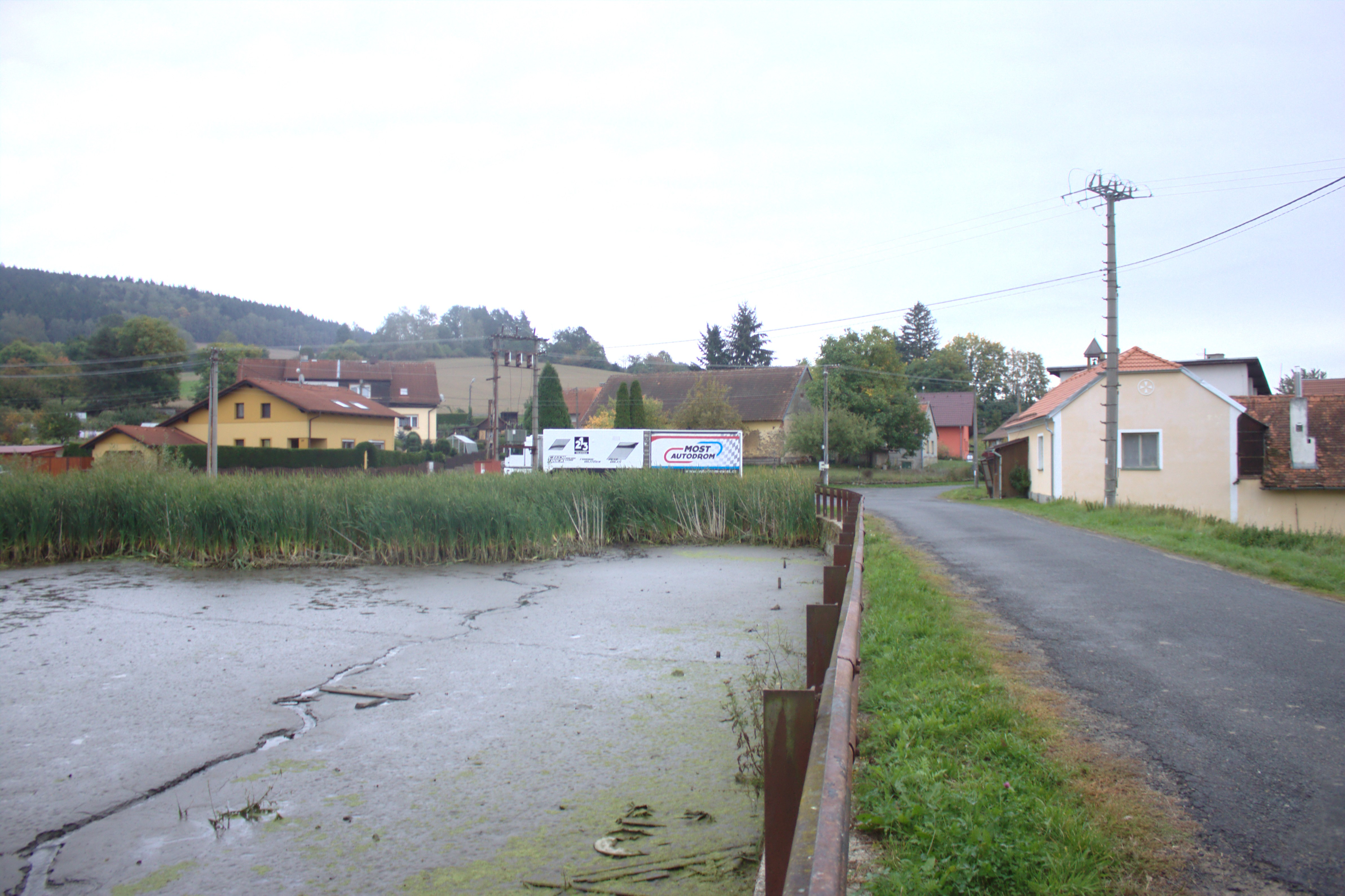 A pond in the village of Hoštičky, Plzeň Region, CZ